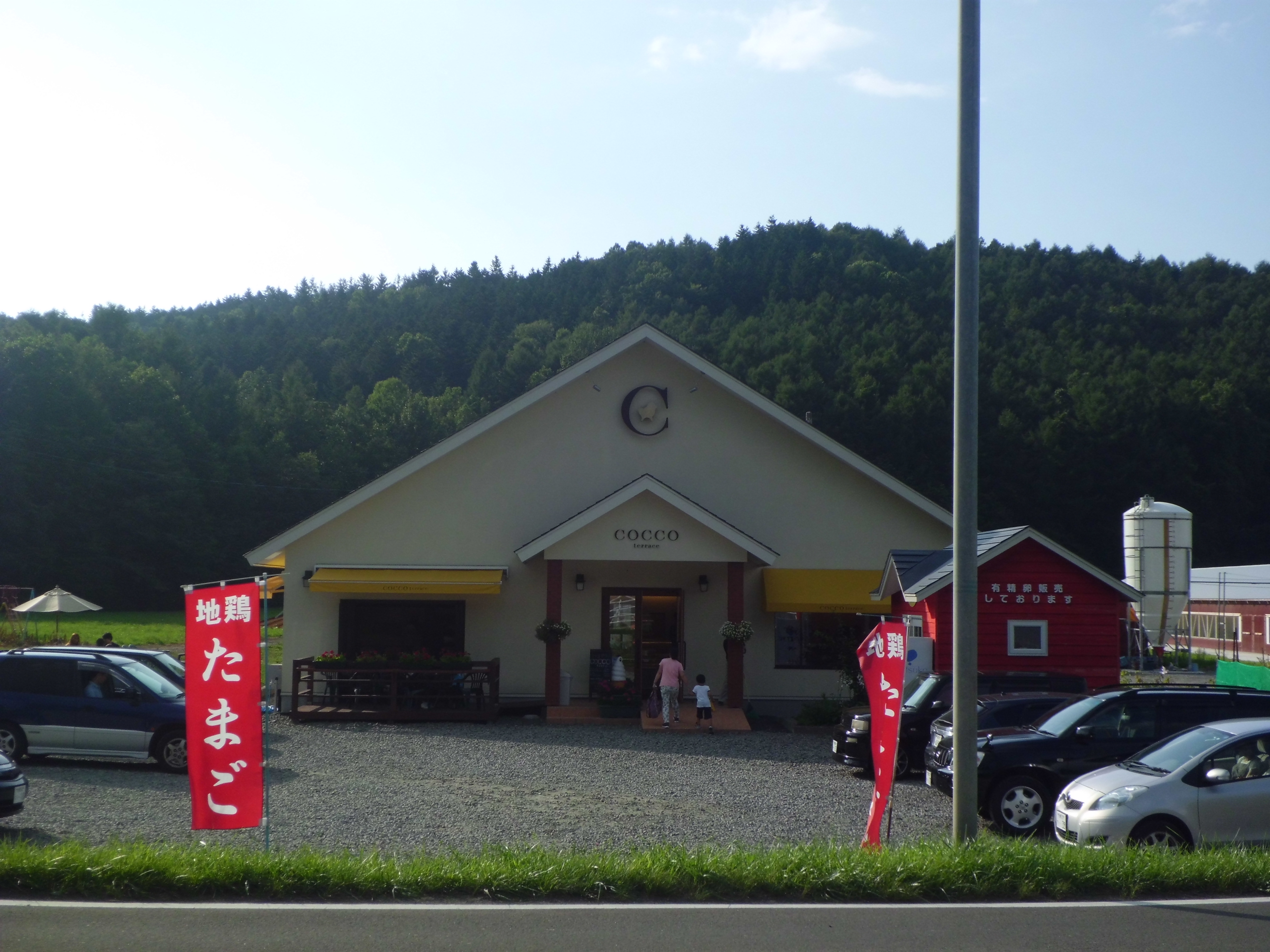 Cocco Terrace